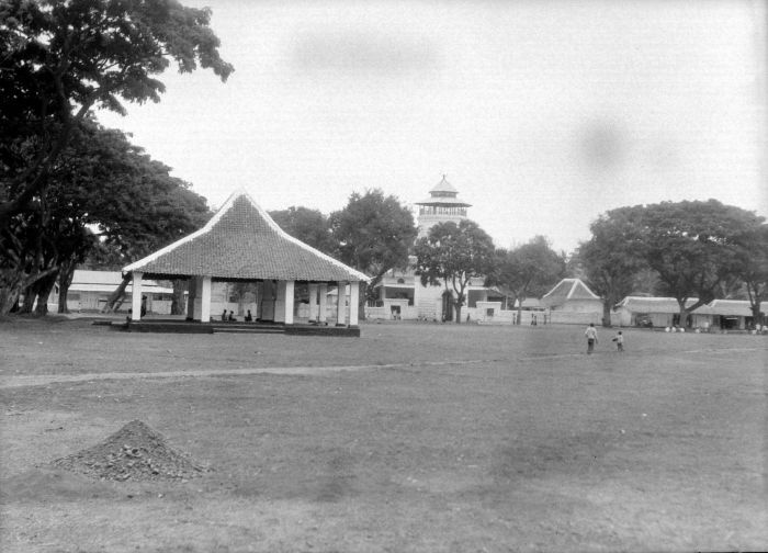 Alun-alun with mosque